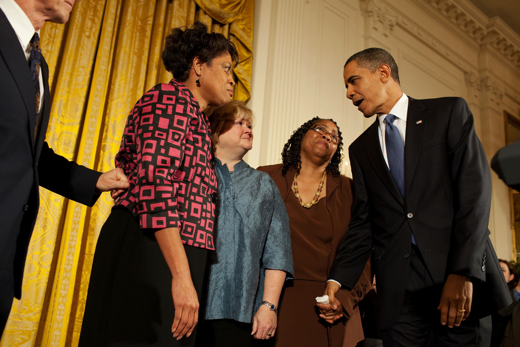 President Barack Obama greets Louvon Harris, left, Betty Byrd Boatner, right, both sisters of James Byrd, Jr., and Judy Shepard, center, mother of Matthew Shepard, following his remarks at a reception commemorating the enactment of the Matthew Shepard and James Byrd Jr. Hate Crimes Prevention Act in the East Room of the White House, Oct. 28, 2009. (Official White House Photo by Pete Souza)